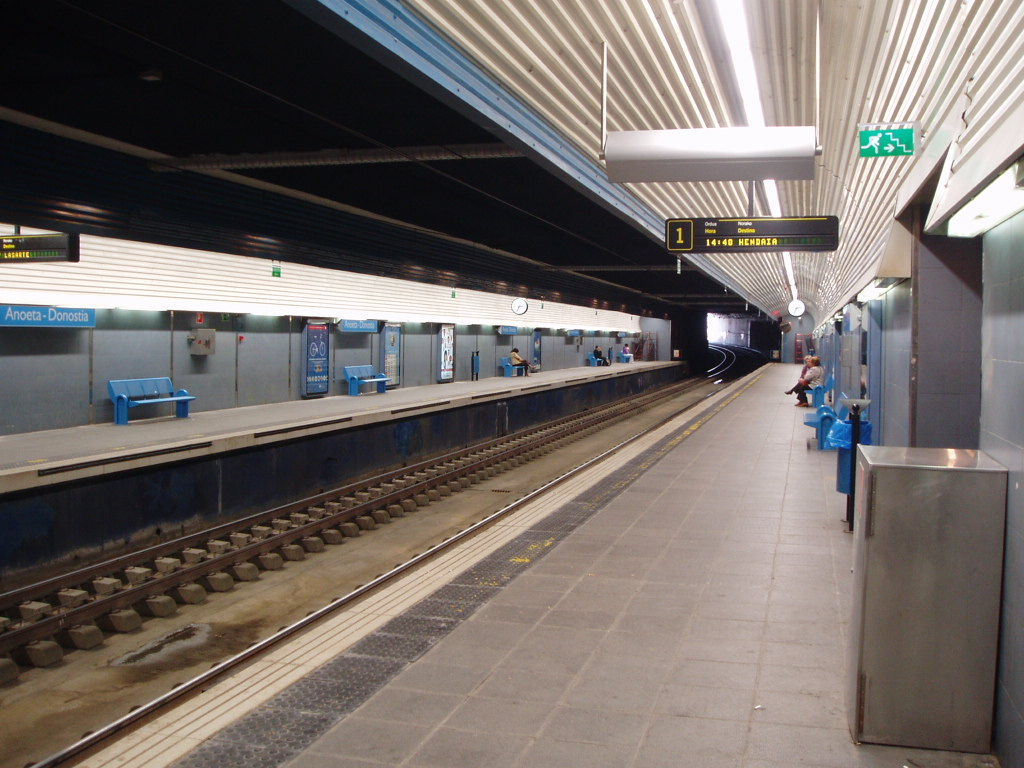 Railway station of Anoeta, in Donostia/San Sebastián (Gipuzkoa). Operating company: Euskotren.